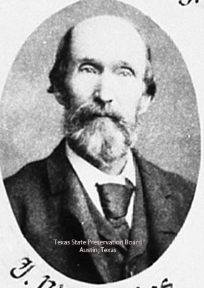 See: "Biographical sketch, James William Peebles, pp. 236-238. Personnel of the Texas State Government with Sketches of Distinguished Texans, 21st Legislature, 1889."